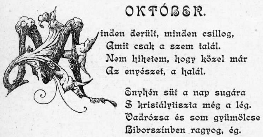 Poem of Feleki Sándor